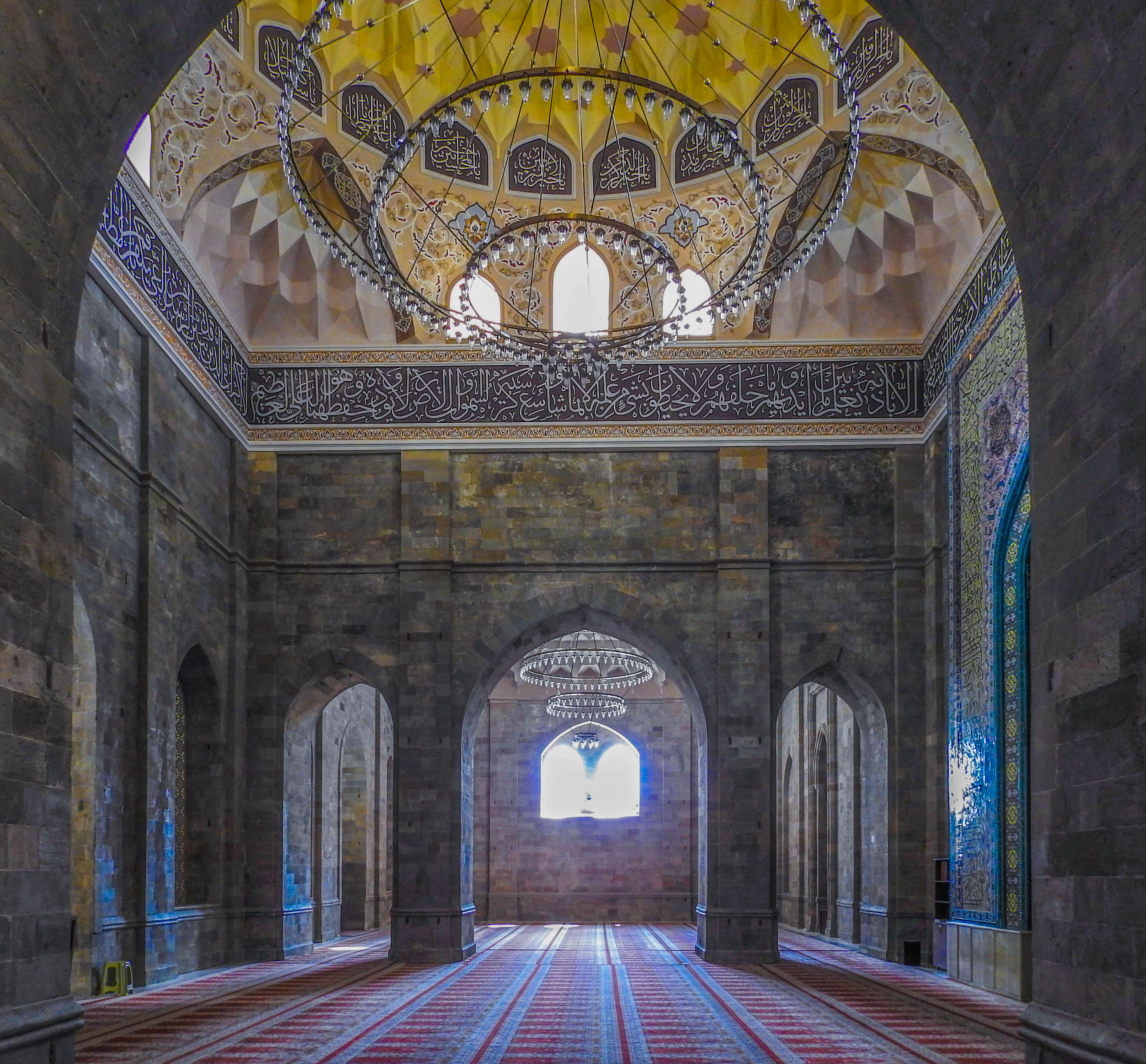 Daylight streams through a window at the far end of inside a cavernous prayer hall in the Juma Mosque in Shemakha, Azerbaijan. Services were not ongoing and the mosque was completely empty which gave me a pretty free run to walk around and photograph as I wished. The only sore point so far had been my guide Ibrahim not meeting the dress code as he was wearing bermudas, but he soon got past that when the caretaker grudgingly let him in after he promised me that his charge, the tourist from India (me) only wants a few minutes to take a few pictures and then off we go. Detailed notes about the Juma Mosque appeared in previous captions. (Shemakha (Shamakhi), Azerbaijan, Sept. 2017)